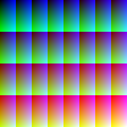 The full 16-bits RGB color palette